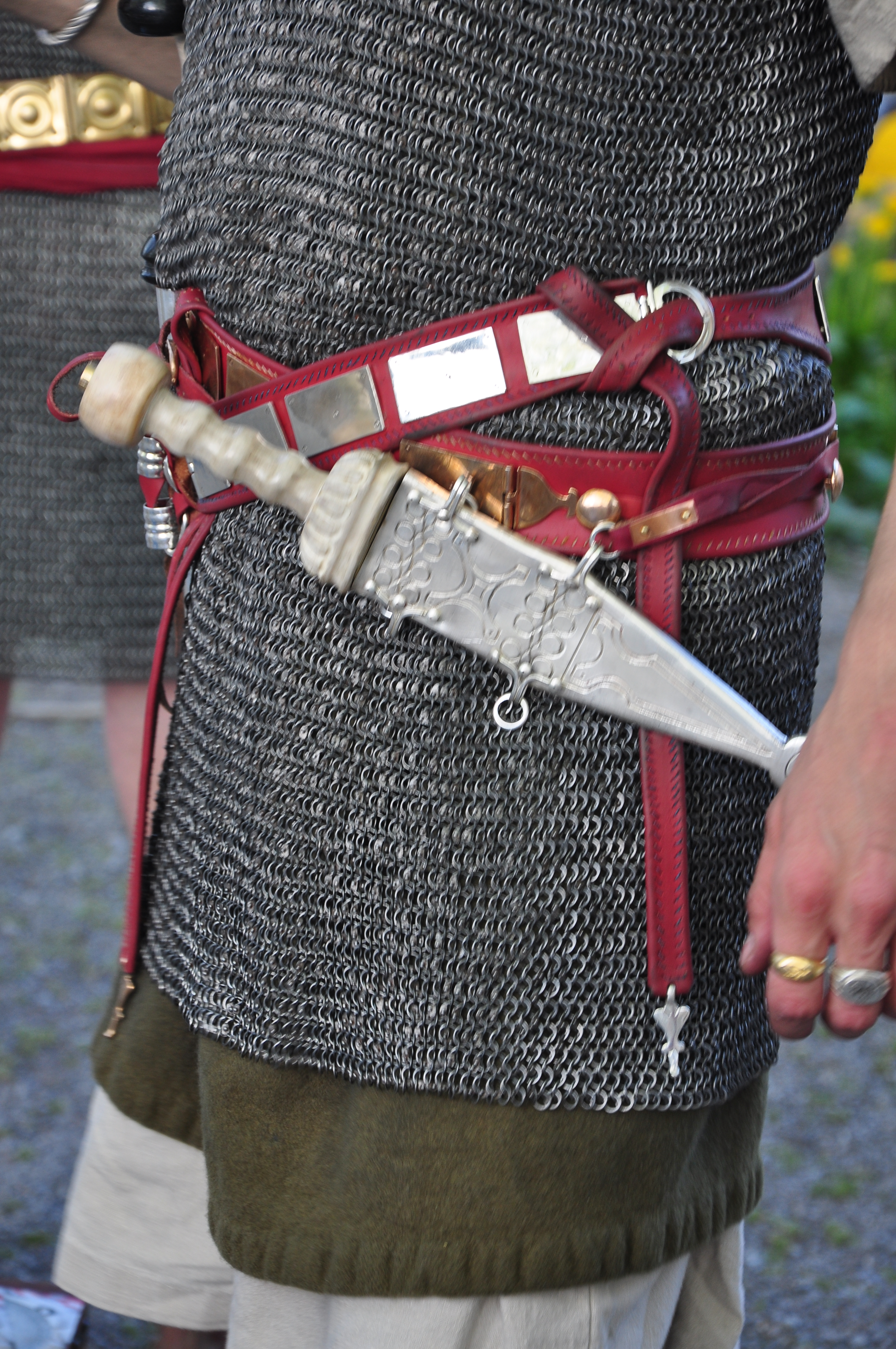 Legio XXI Rapax, 'guests' on Lindenhof plaza respectively Pfalzgasse in Zürich (Switzerland) on Friday-Monday before Sechseläuten in April 2011